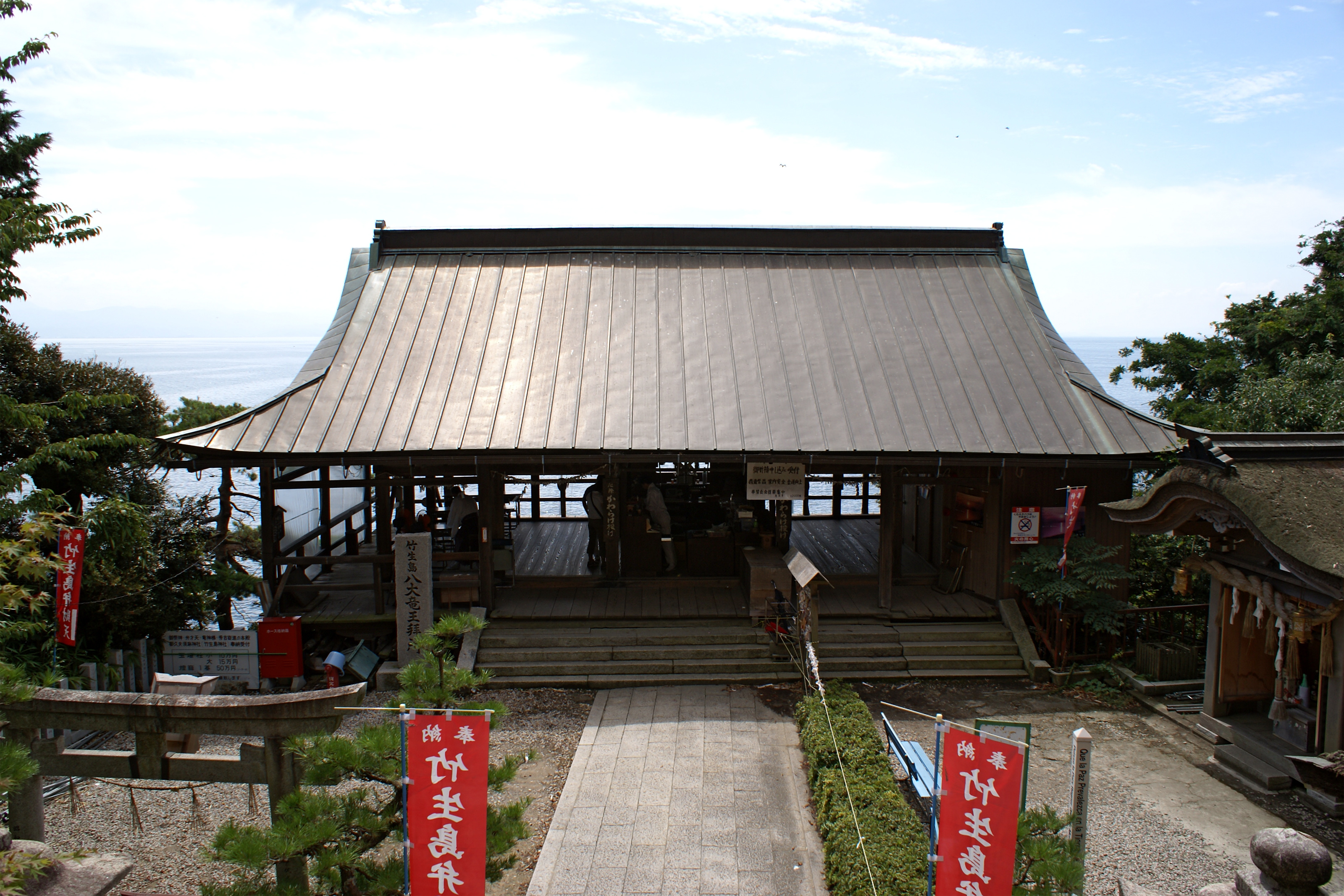 Tsukubusuma-jinja in Nagahama, Shiga prefecture, Japan